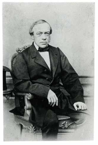 Ludwig von Jan (1807-1869), German classical philologist